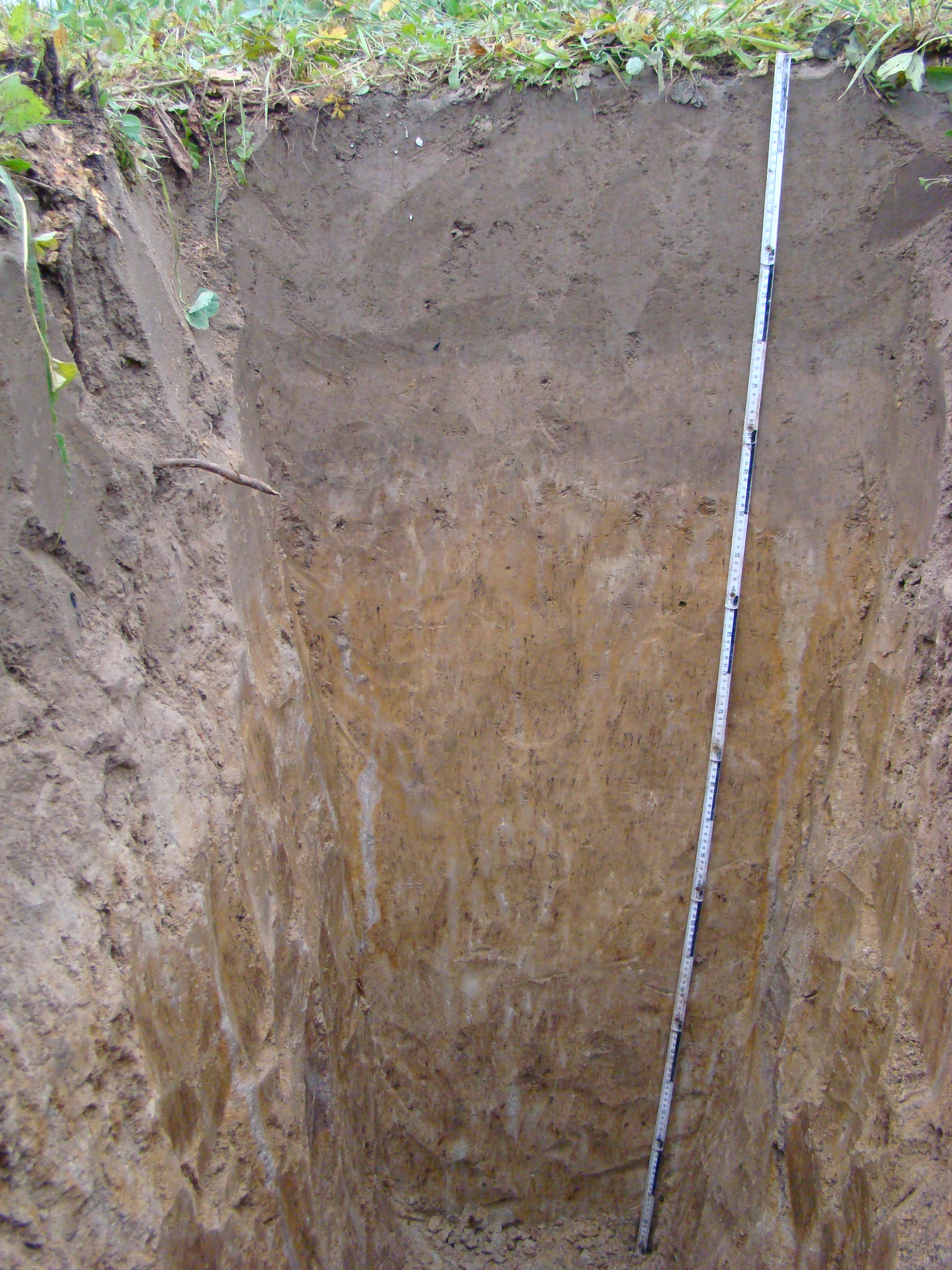 Luvisol (Alfisol) from loess-like deposits. S Poland.